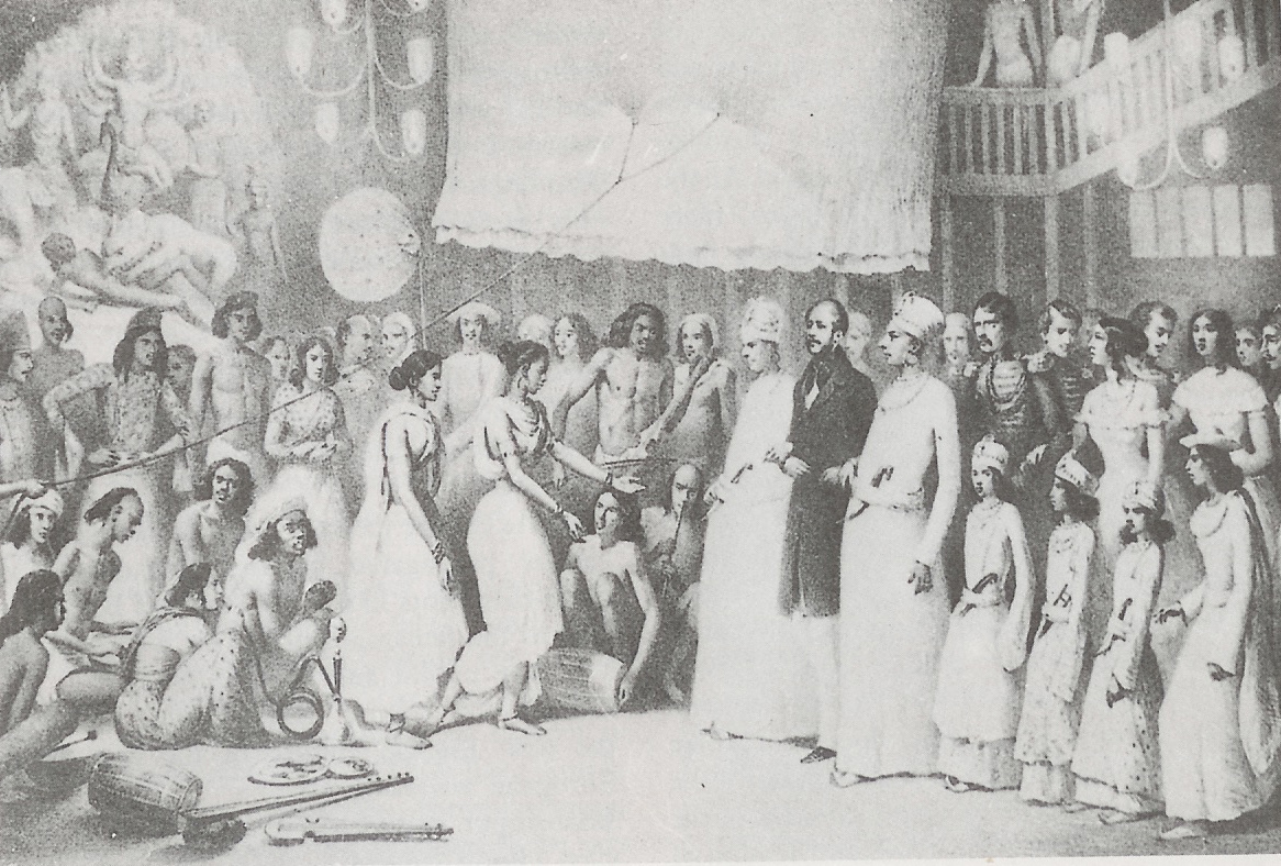 Festival of the Goddess Durga at Calcutta by Alexis Soltykoff (1859)